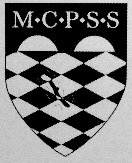 The logo of the Magdalen College Pooh Sticks Society, as designed by the Eternal President and Hon. Secretary of the time.